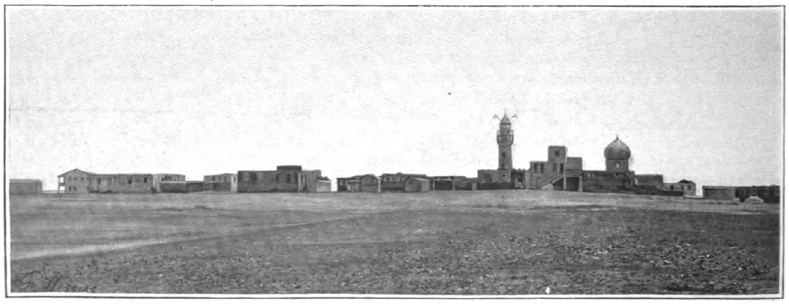 A picture taken of shata (Damietta). Found in an article titled "Coins d'Egypte ignores, By Albert Gayet"